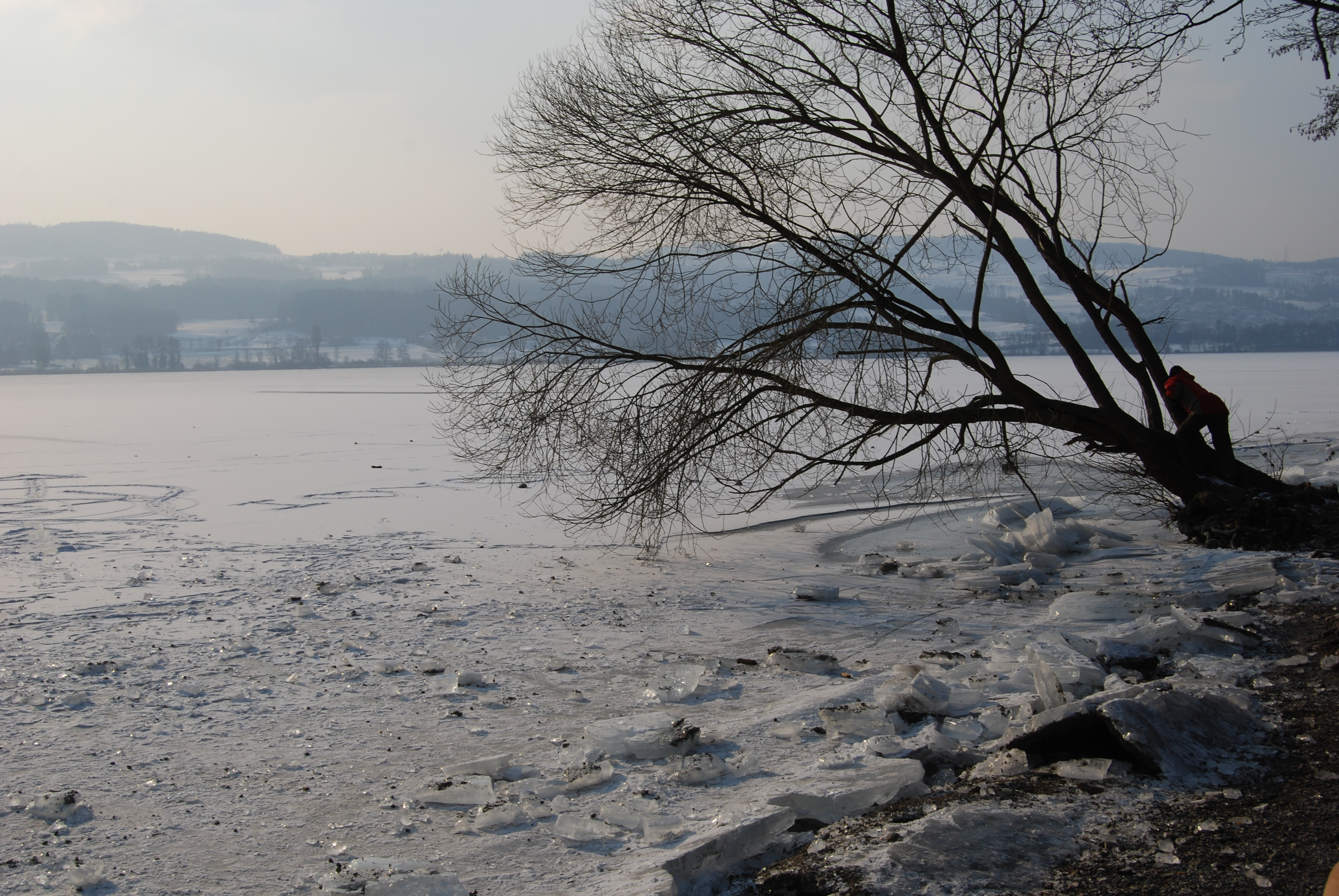 The frozen lake Greifensee at Niederuster, city of Uster, canton of Zürich, SwitzerlandEsperanto: La frostiĝinta lago Greifensee ĉe Niederuster, urbo Uster, Kantono Zuriko, Svislando